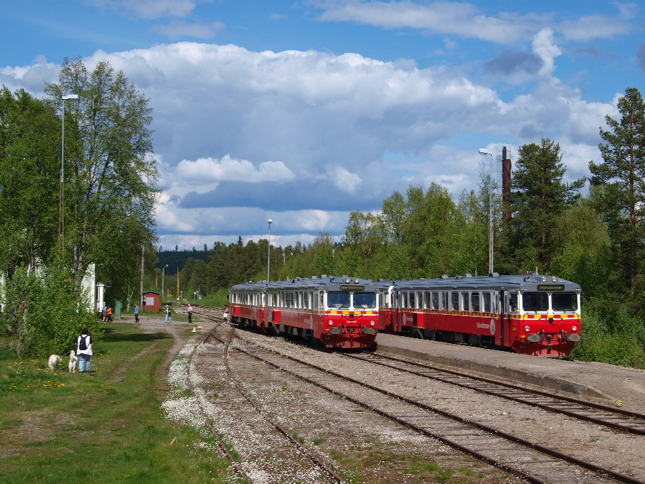 crossing in Sorsele